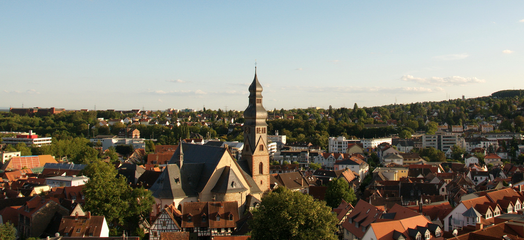 City of Hofheim / Taunus from above with catholic church of St. Peter and Paul (north view)